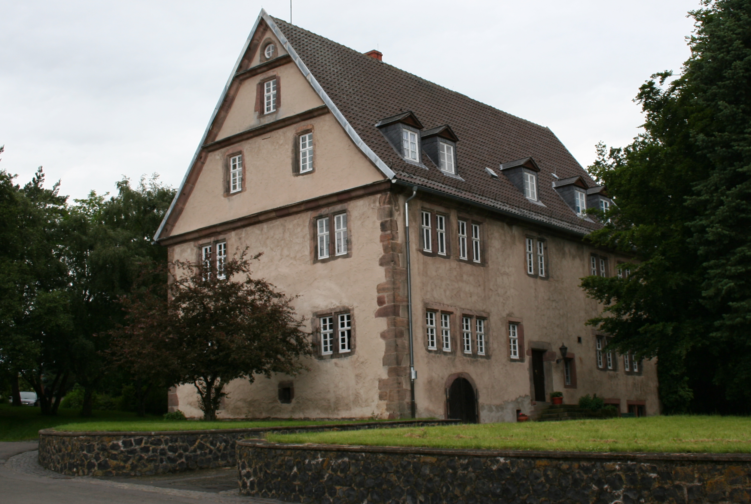 former manor house of the Riedesel family (view from the west); Hohwaldstrasse 1, Rudlos, Lauterbach, Hesse, Germany